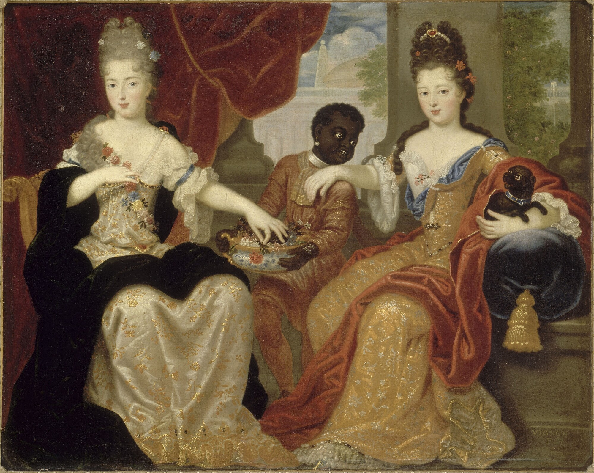 Francoise Marie de Bourbon (1677-1749), "Mademoiselle de Blois" future Duchess of Orléans with her older sister Louise Françoise de Bourbon (1673-1743), "Mademoiselle de Nantes" future Duchess of Bourbon; daughters of Louis XIV of France and Madame de Montespan